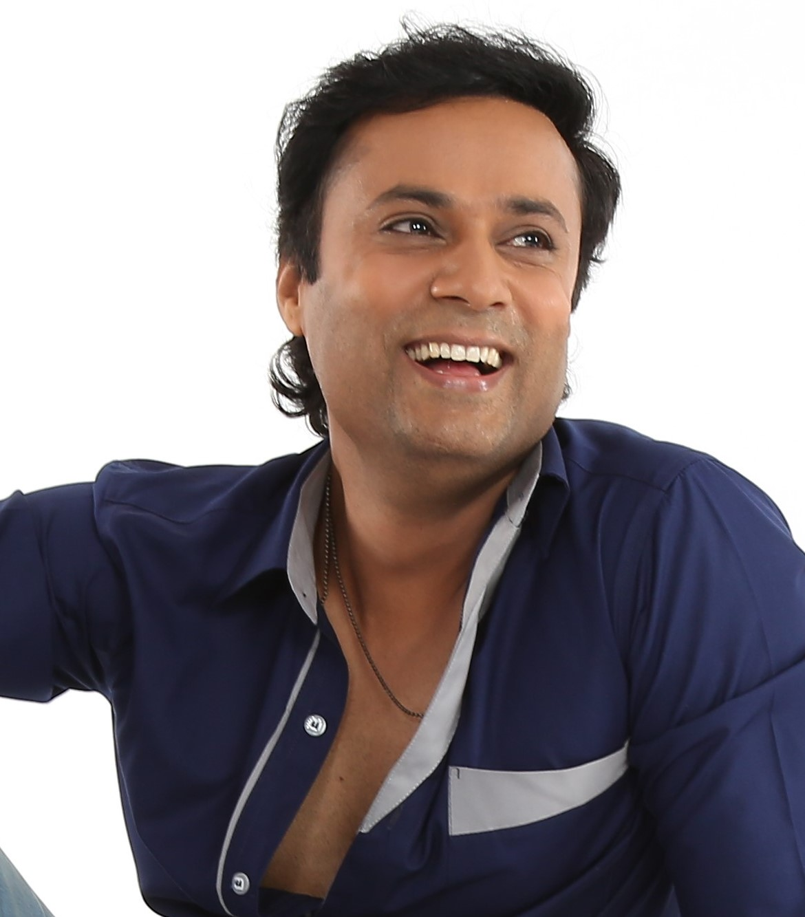 The file is an image of Kannada Actor and DIrector Vikas